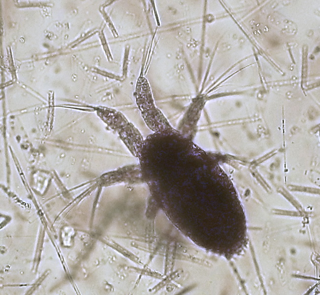 Larva (nauplius) of copepod (Acartia clausi ?); hydrofront of Dnieper-Bug Liman